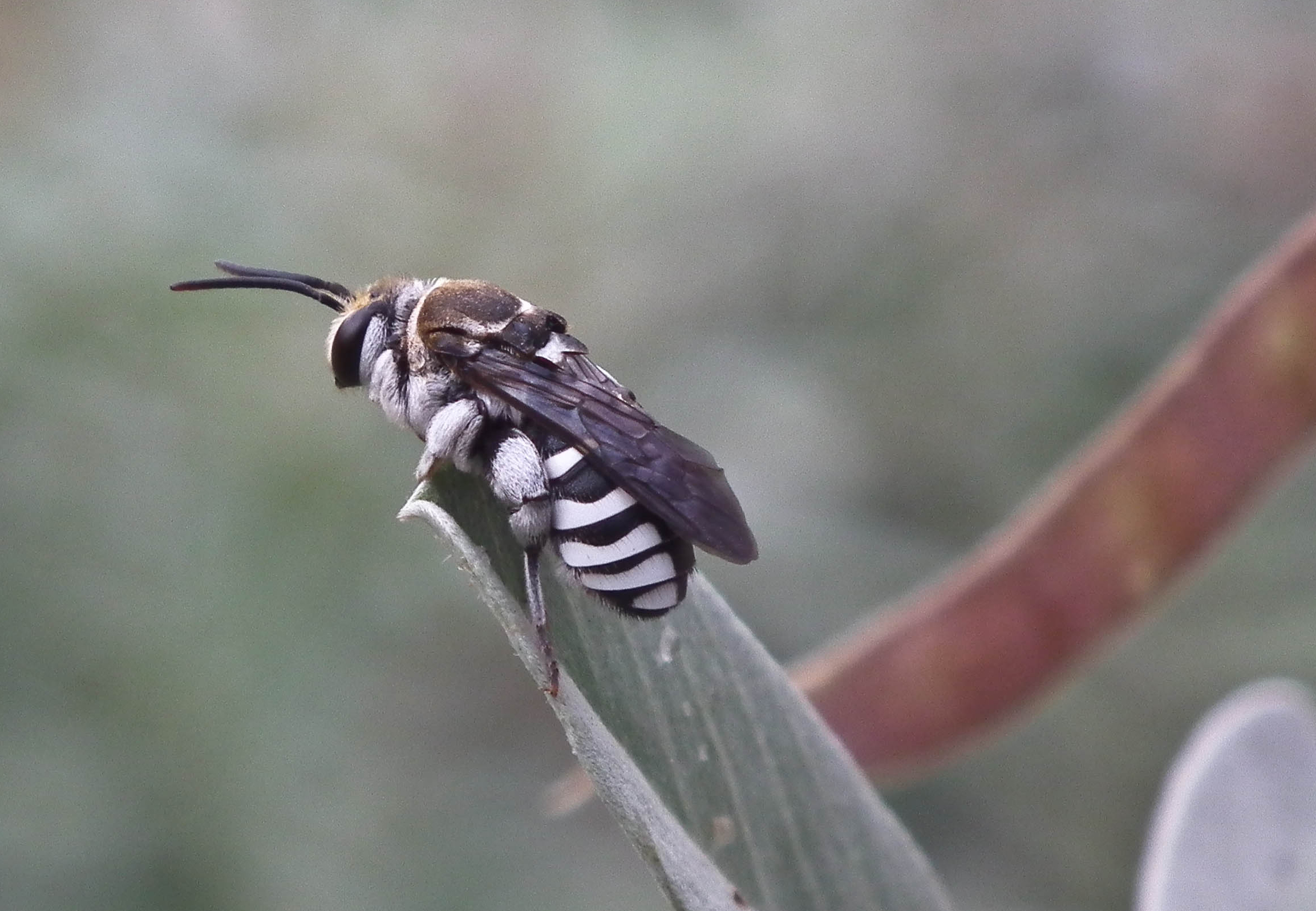 Pseudapis nilotica for United Arab Emirates